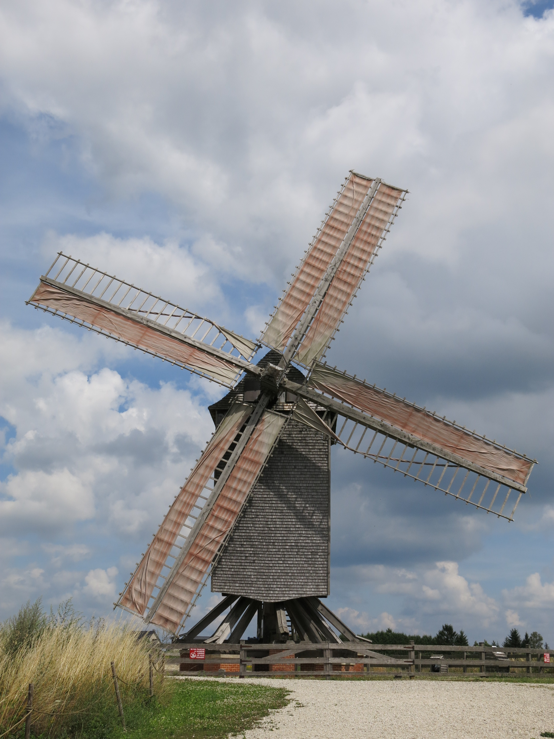 Windmill of Dosches near Troyes (Aube, France).